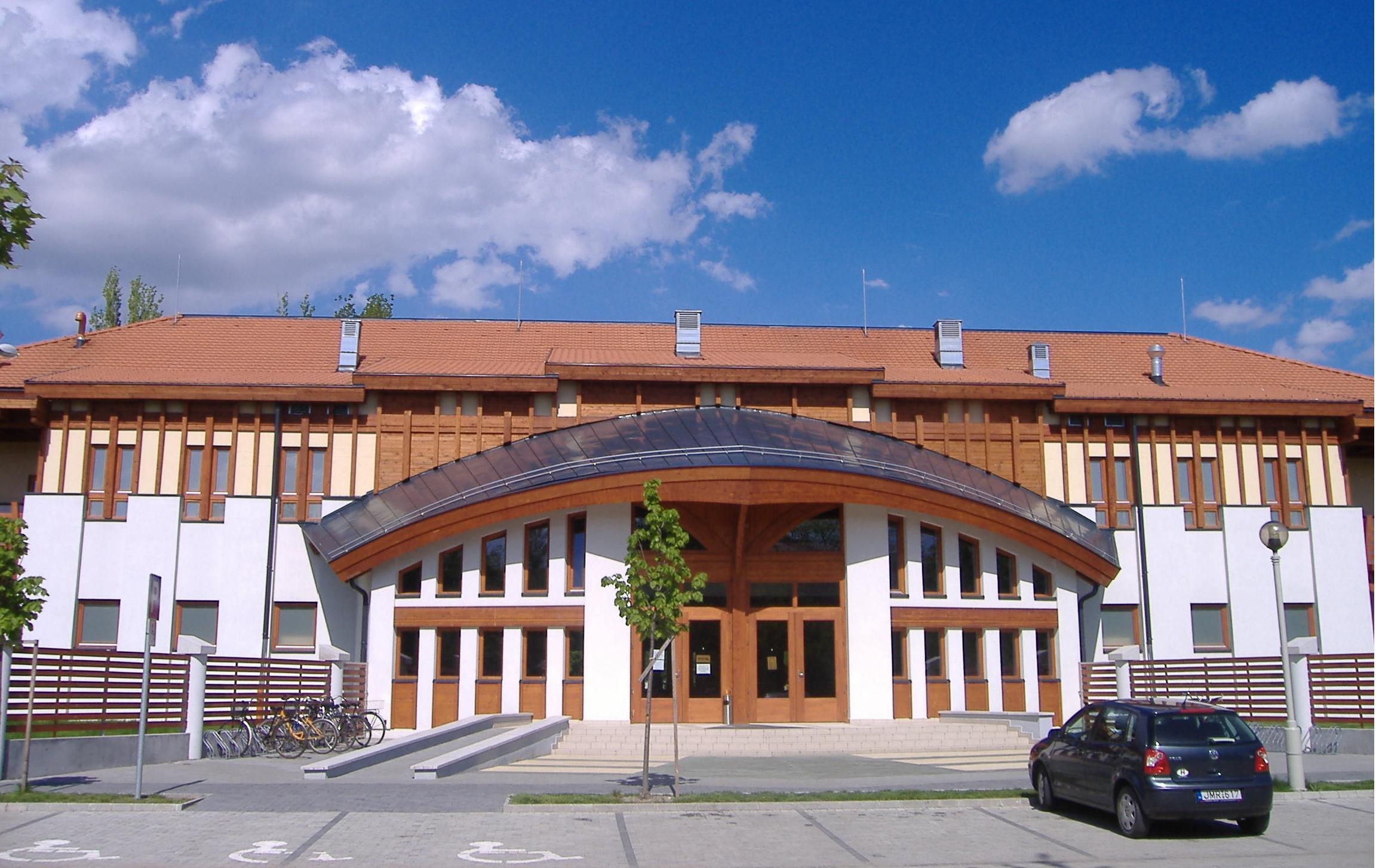 The departure building of the Thermal and Medical Bath built in May 2007 in Makó, Hungary.